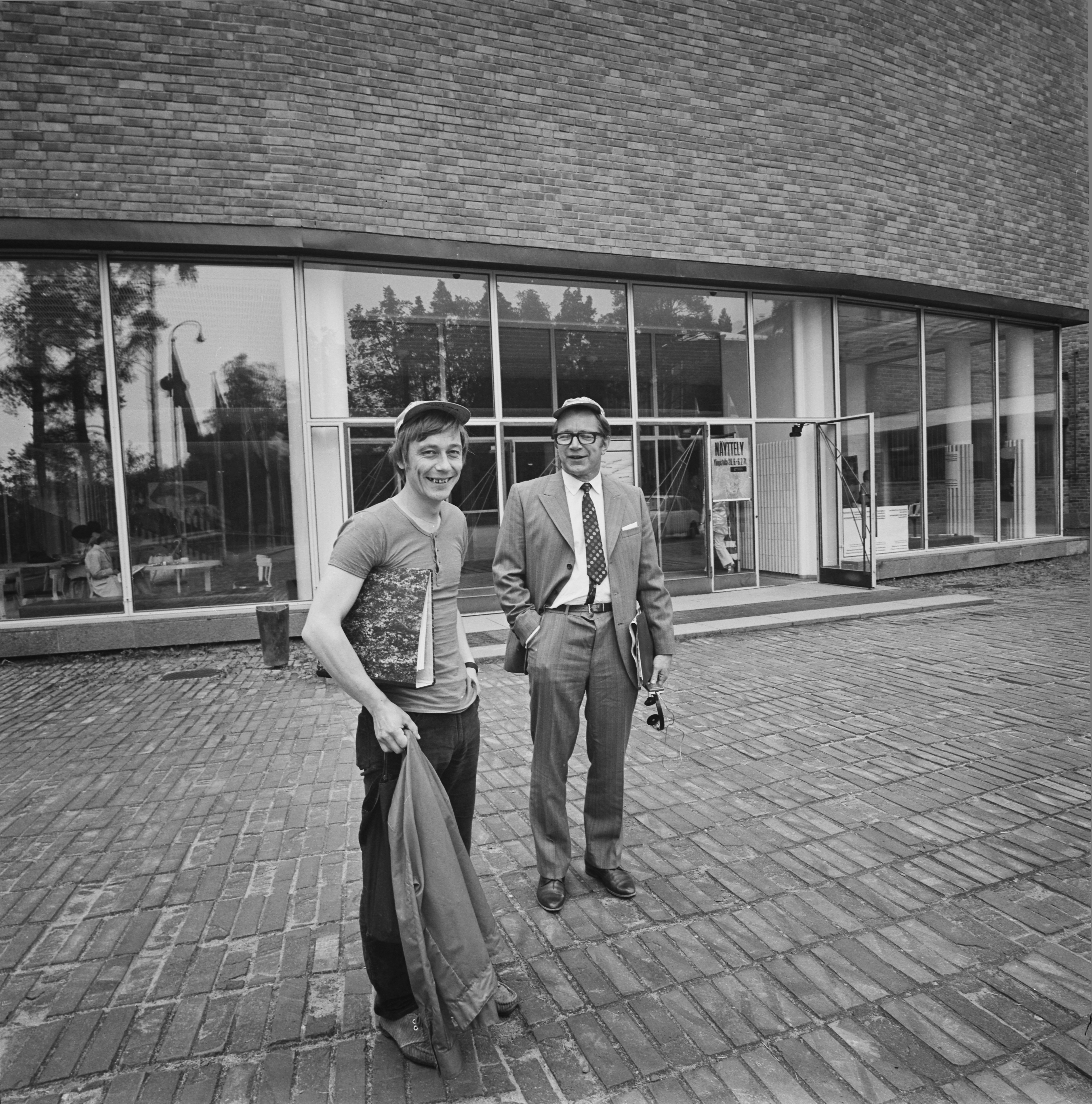 Photograph of the Finnish journalist Hannu Taanila (1939–) and politician Pentti Sillantaus (1923–1998) in Jyväskylä, during Jyväskylän Kesä festival, in front of the University.